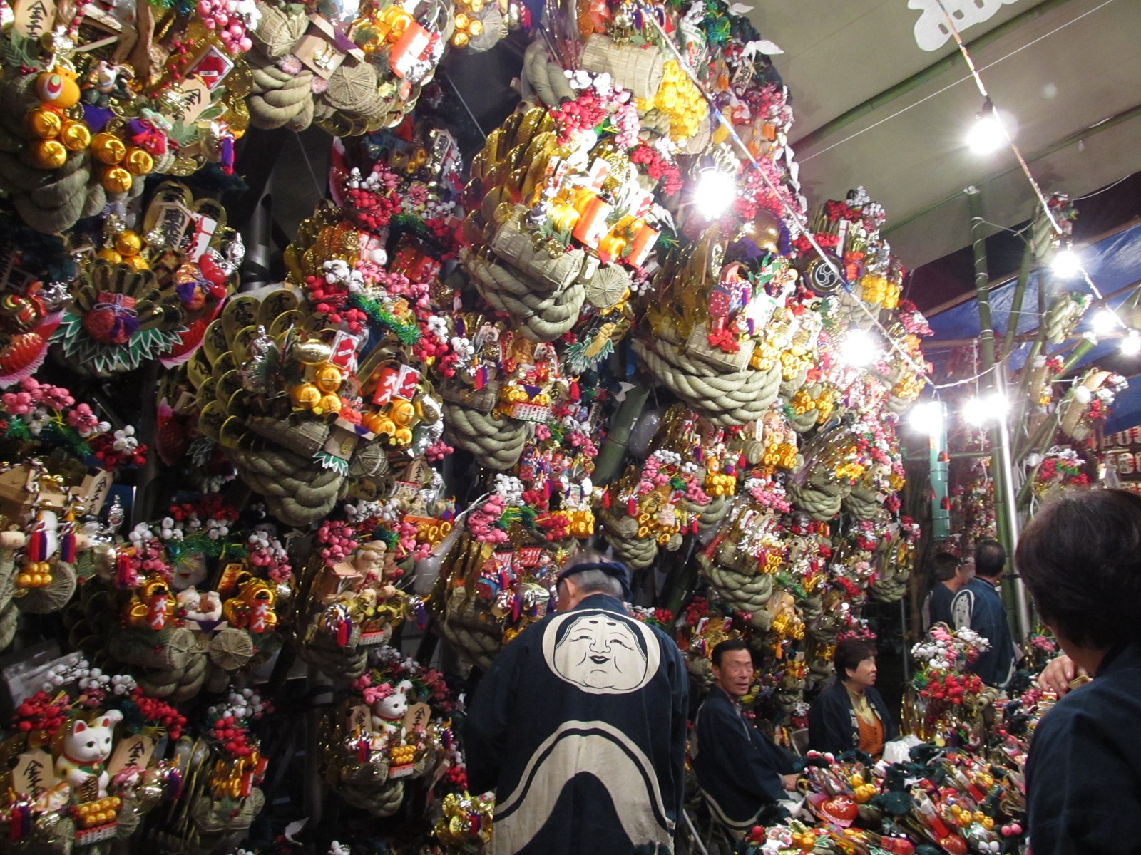 Tori-no-ichi festival at Okunitama Shrine in Fuchu, Tokyo, Japan